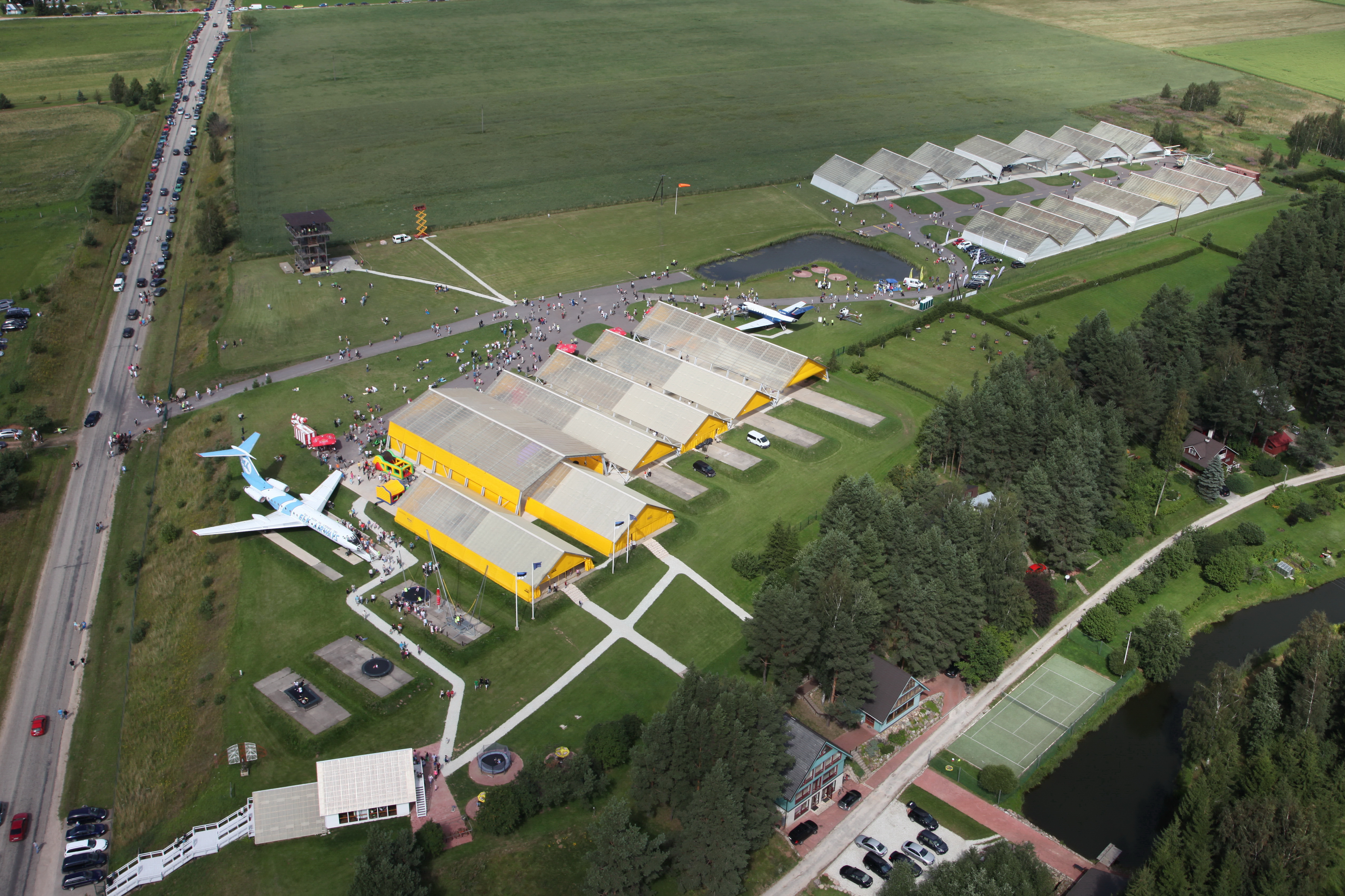 Estonian Aviation Museum during Estonian Aviation Days 2012.